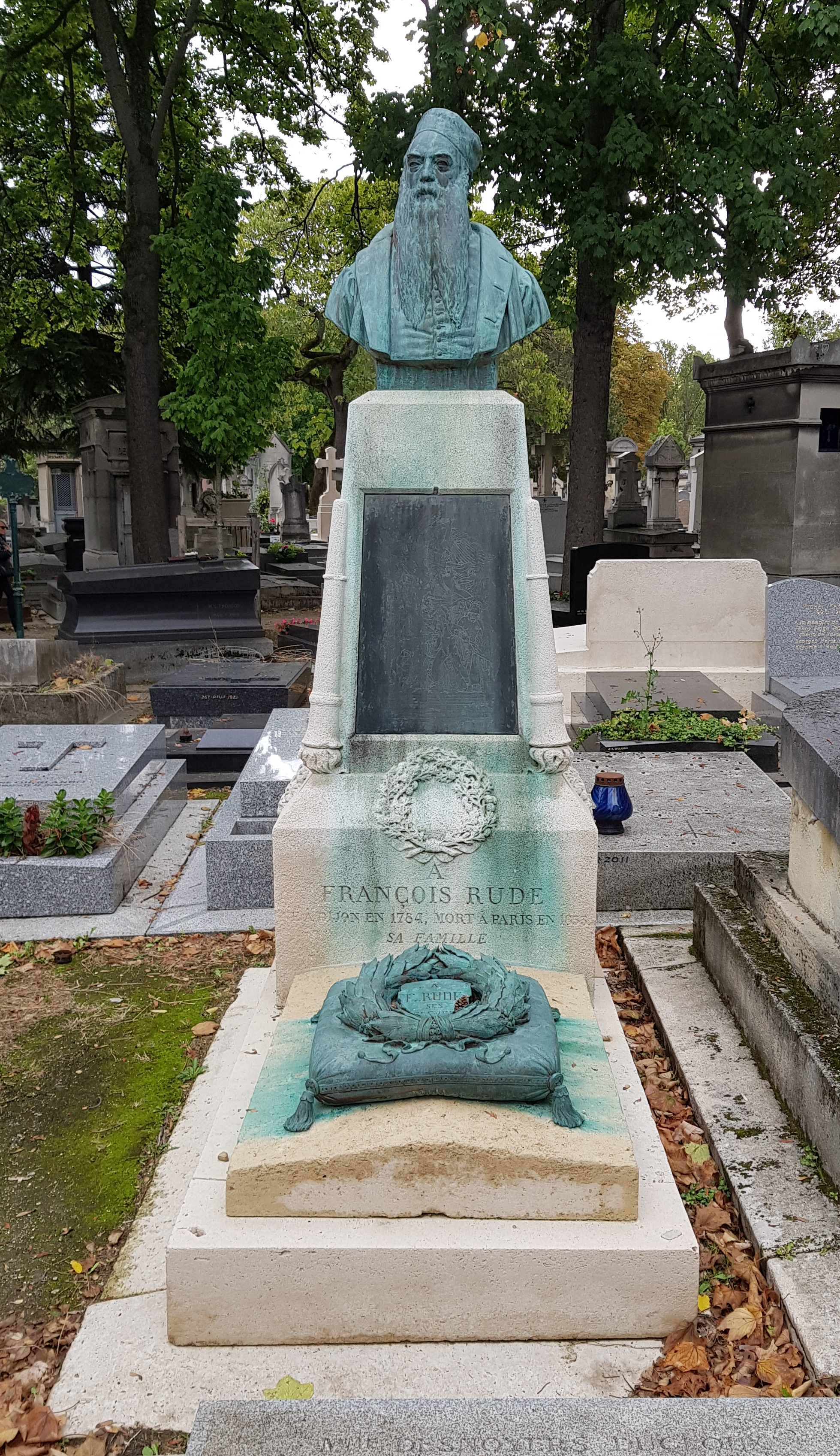 Grave of François Rude on the Montparnasse cemetery, view from the front, cropped